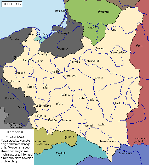 Map of Invasion of Poland in this certain day.